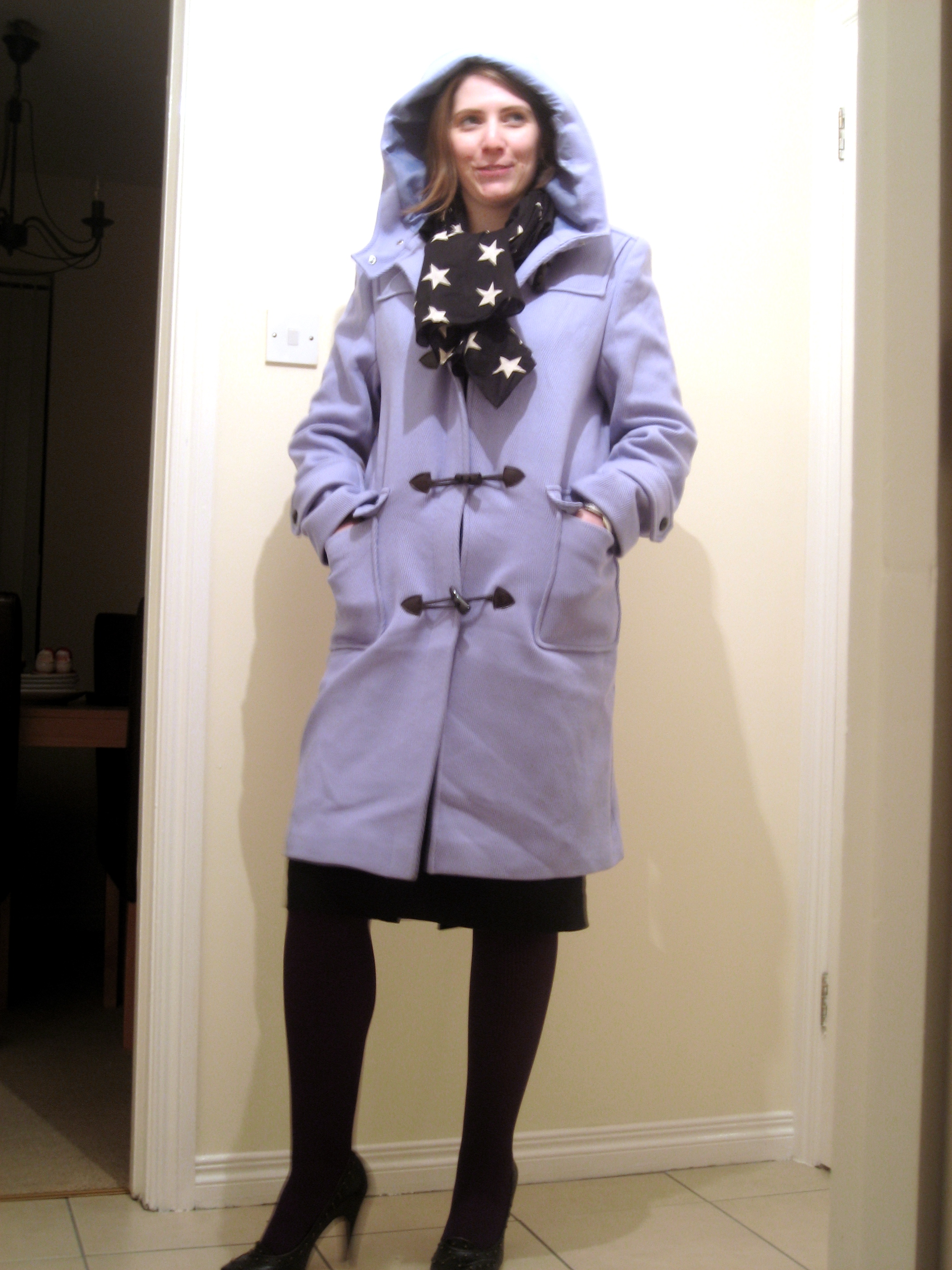 It hasn't stopped raining since bedtime last night, its as if a whole ocean has evaporated and is precipitating right over me now! (See I did revise my water cycle really well). Paddington duffle coat - Matalan Black skirt - Topshop Star Scarf - Chanel (only joking its primark) Purple ribbed tights - Oasis Shoes - Faith